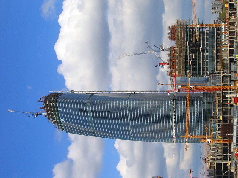 Federation Tower on 4 may 2007